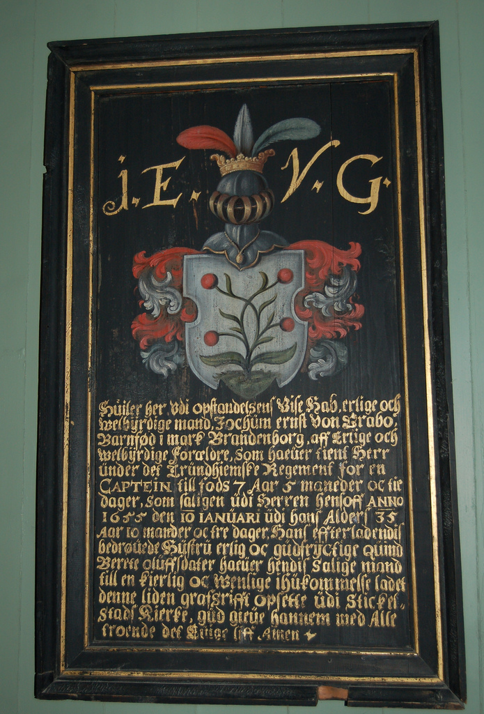 Coat of arms for Jochum Ernst von Grabo, Stiklestad church, Norway